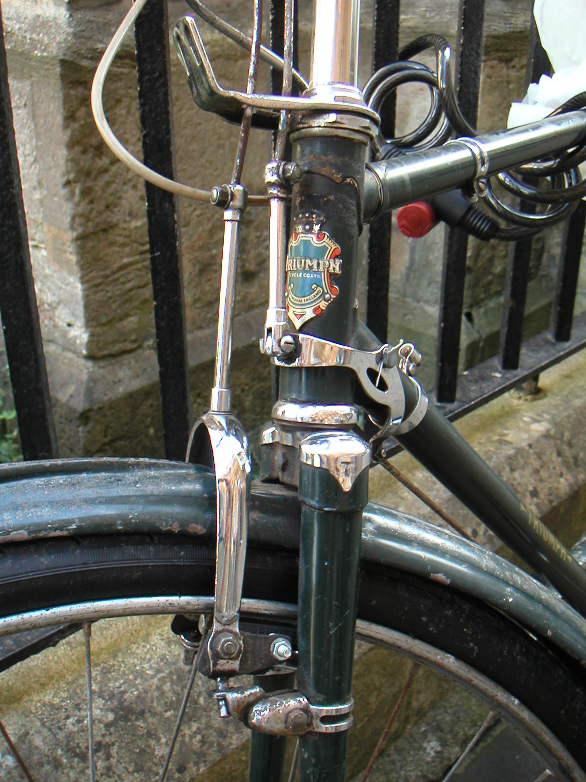 Front rod brake ant upper part of the rear rod break